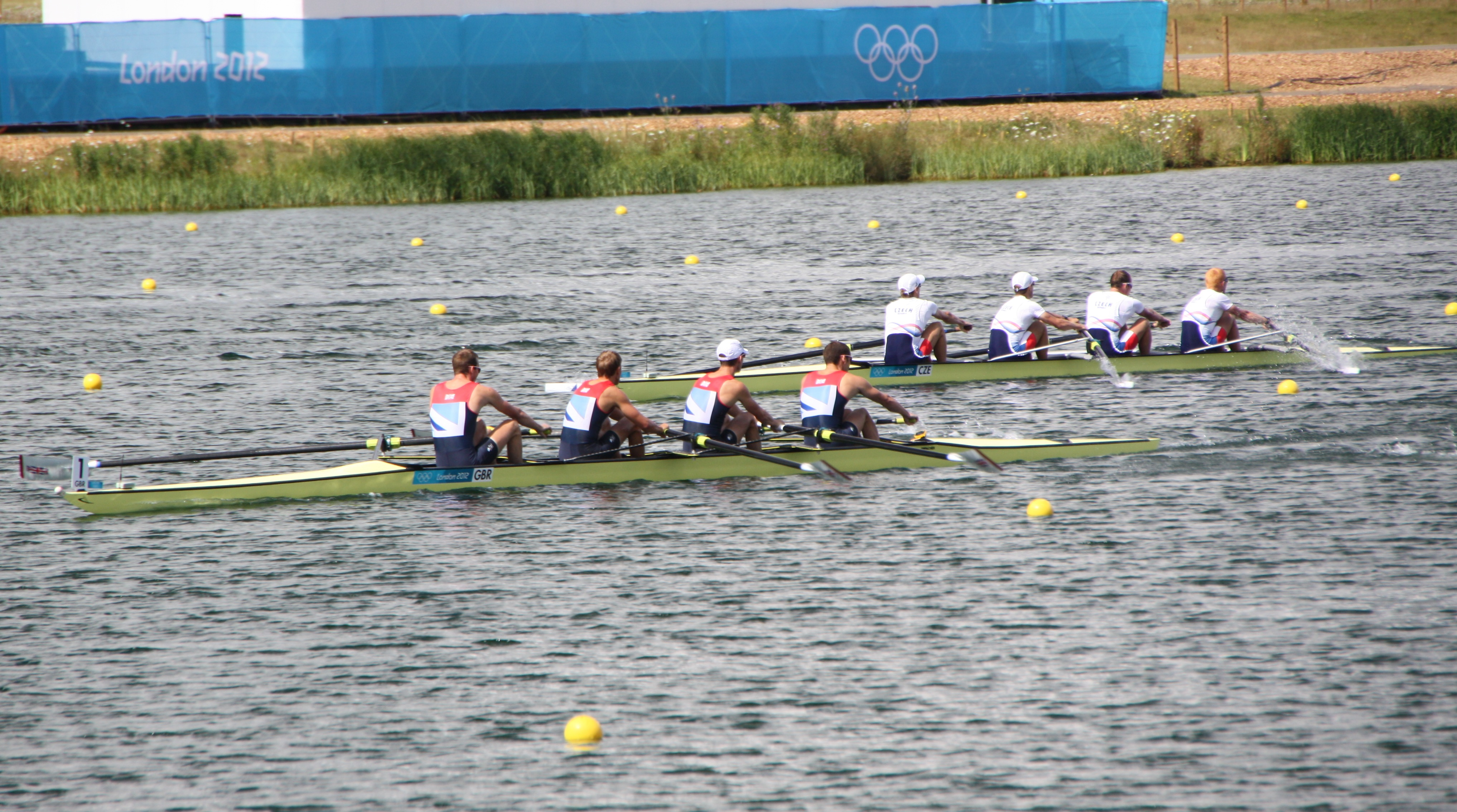 Rowing at the 2012 Summer Olympics - Men's lightweight coxless four - Great Britain (Peter Chambers, Rob Williams, Richard Chambers, Chris Bartley) and Czech Republic (Miroslav Vraštil, Jiří Kopáč, Jan Vetešník, Ondřej Vetešník) in final metres of heat 2. IMG_9240